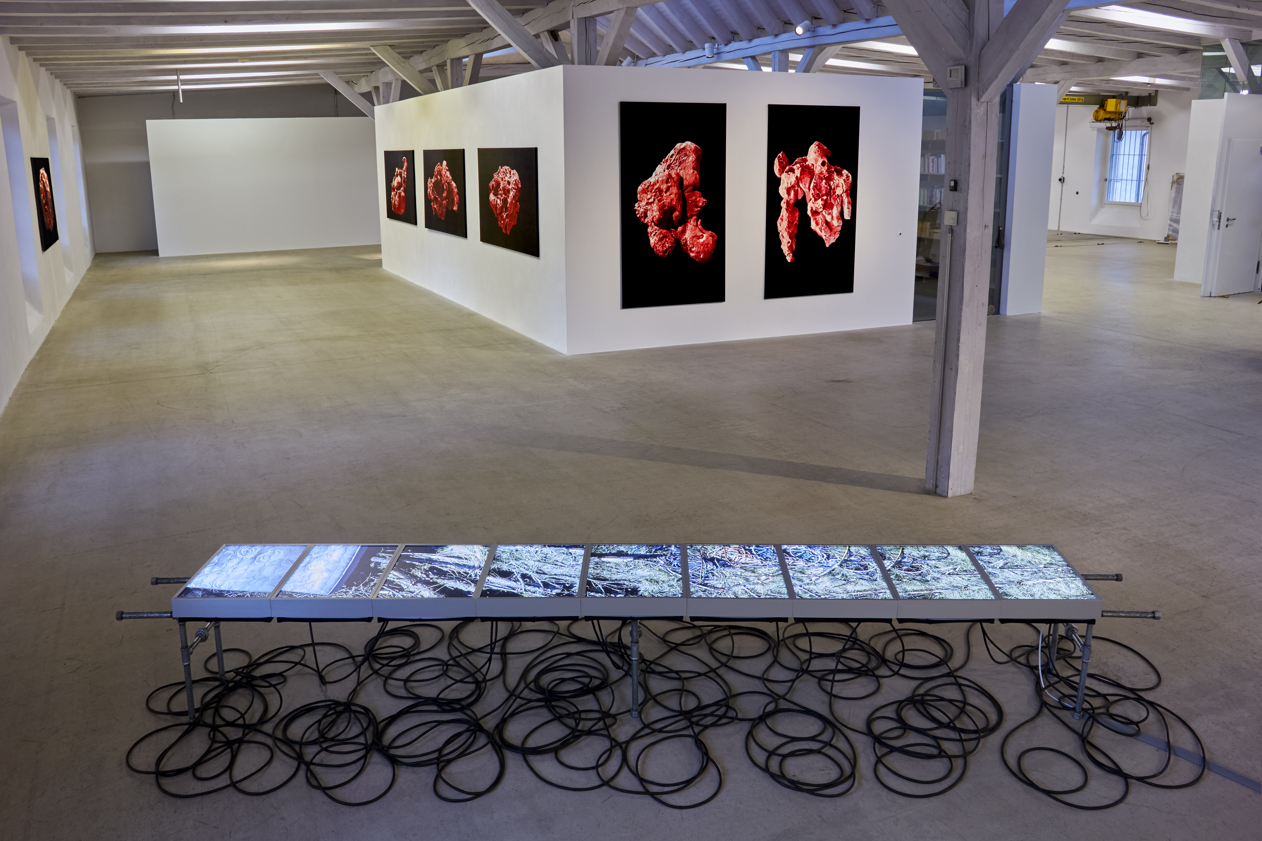 art exhibition Franziska Rutishauser